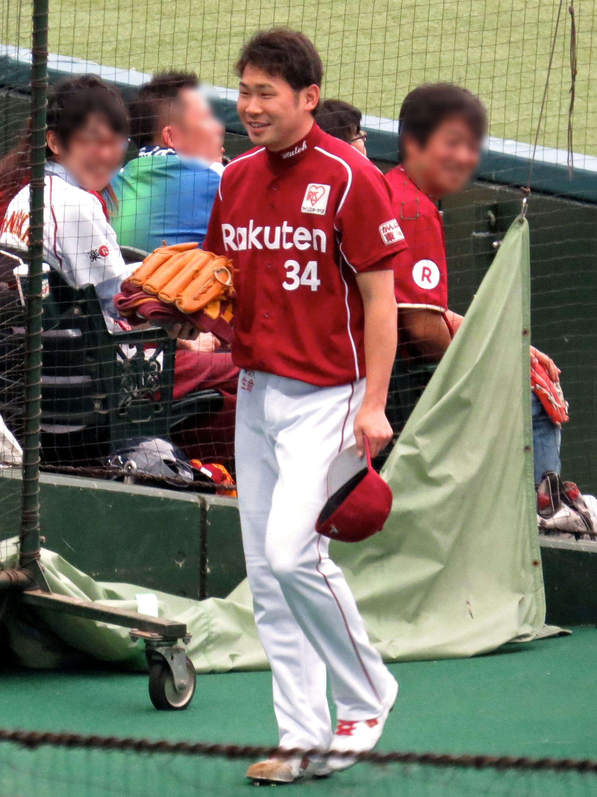 Yoshitaka Mutoh, pitcher of the Tohoku Rakuten Golden Eagles, at Seibu Dome.